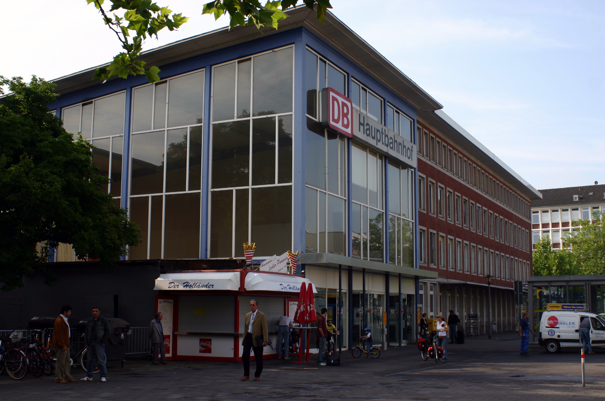 Münster Main Station